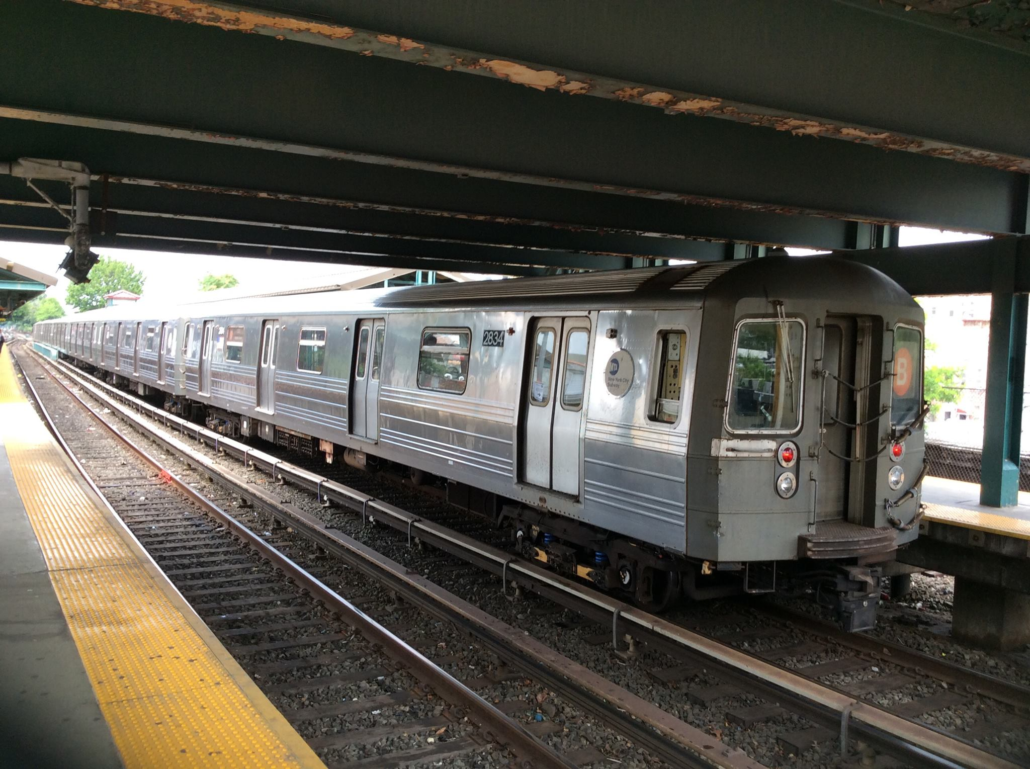 Northbound R68 B train at Kings Hwy